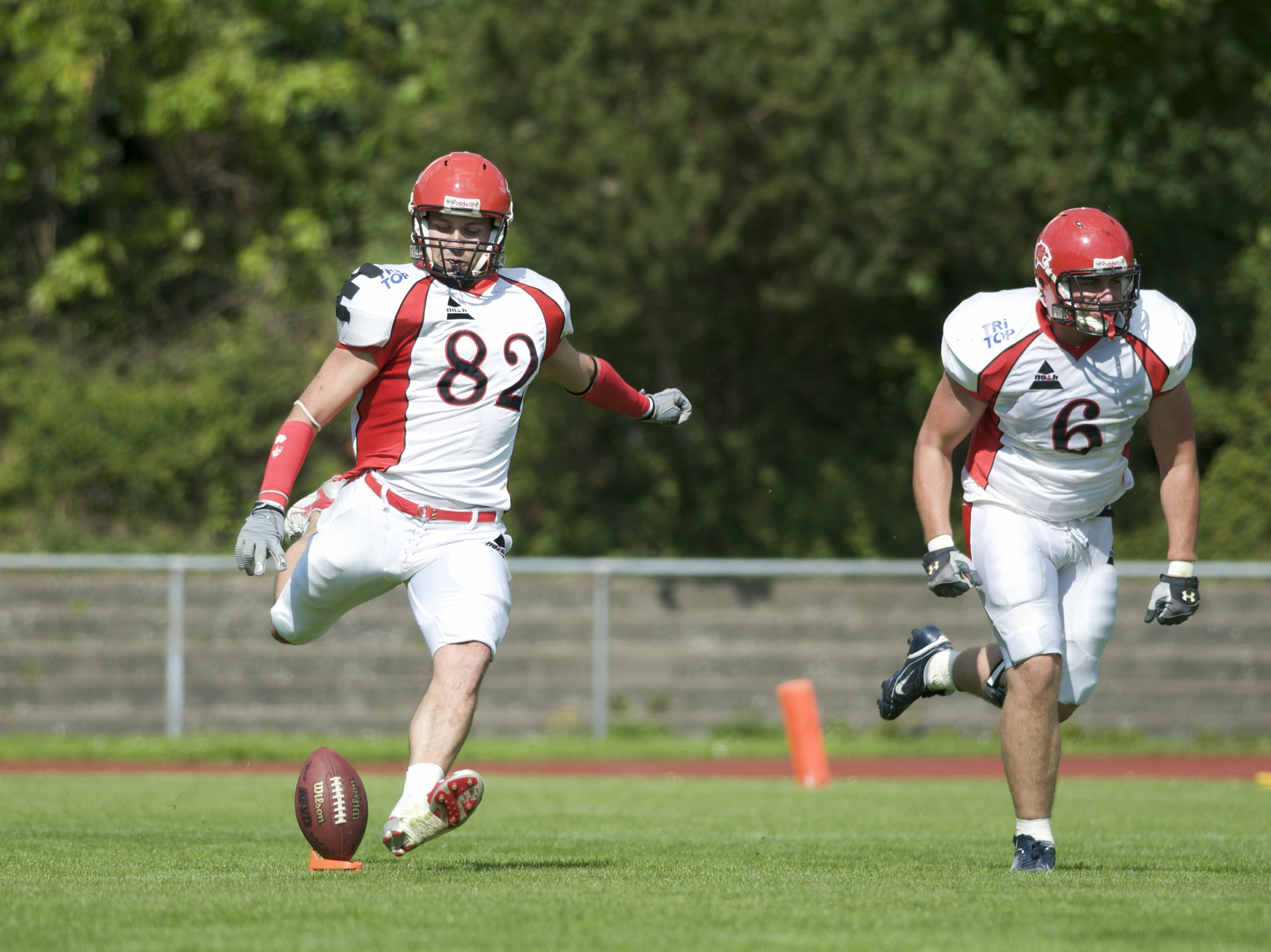 Kickoff in American Football (Lübeck Cougars)